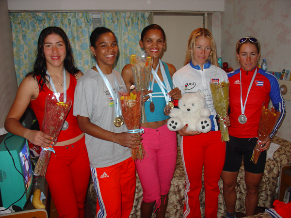 Cuban national cycling team, Pan American Championships 2005, Mar del Plata, Argentina L-R: Yudelmis Domínguez, Lisandra Guerra, Yumari González, Yuliet Rodríguez Jiménez, Yeilien Fernandez